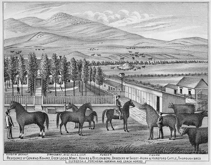 Grant-Kohrs Ranch National Historic Site, Montana, USA. This 1885 engraving shows the ranch around 1880. Caption: "Residence of Conrad Kohrs, Deer Lodge, Montana. Kohrs & Bielenberg, Breeders of Short-Horn and Hereford Cattle, Thoroughbred Clydesdale, Perchemon-Norman and Coach Horses."